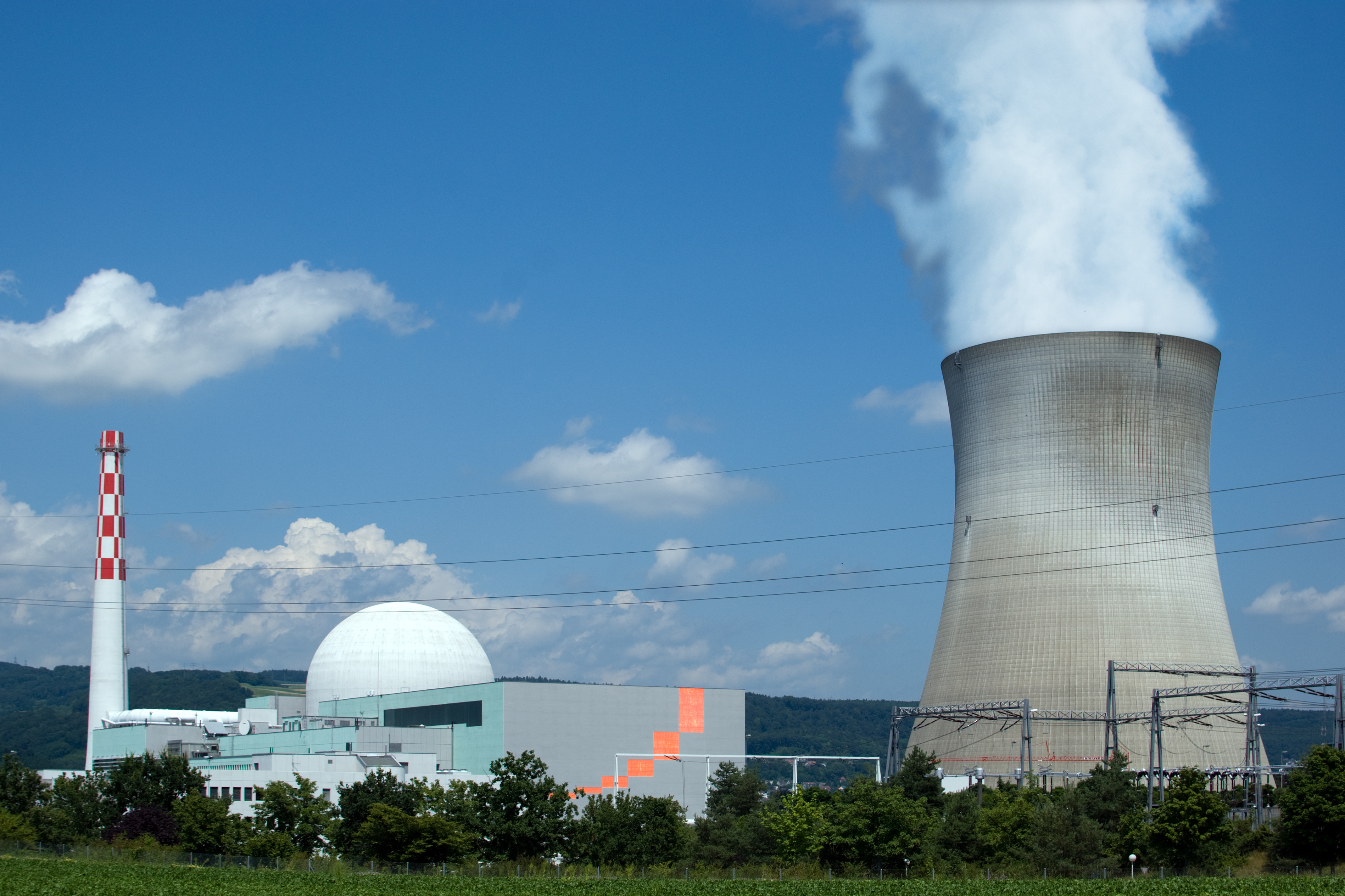 Nuclear Power Plant Leibstadt (CH)